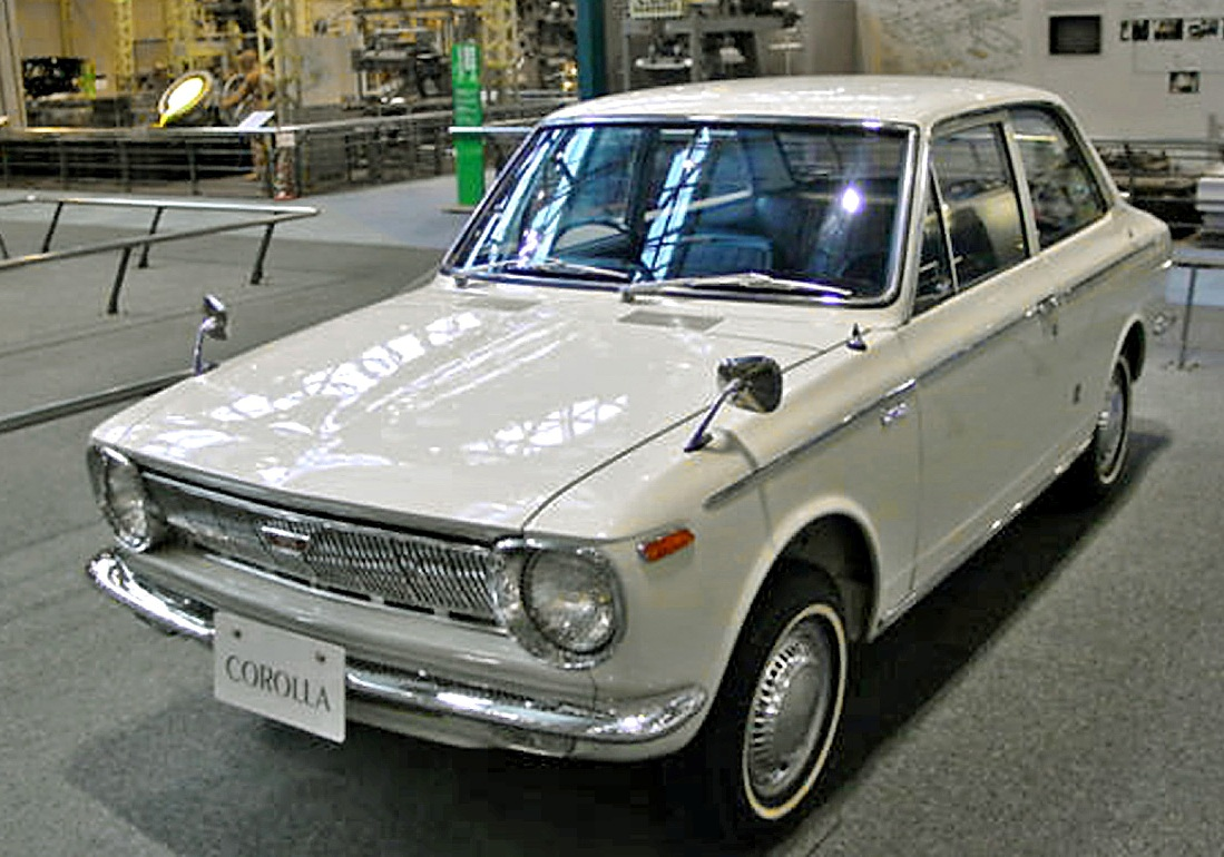 Toyota Corolla that appeared in 1966. The photograph is taken in industrial technological memorial (TOYOTA TECNNO MUSEUM) in Nagoya City in October, 2005. Photo : taken by D.Bellwood, modified by Tennen-Gas